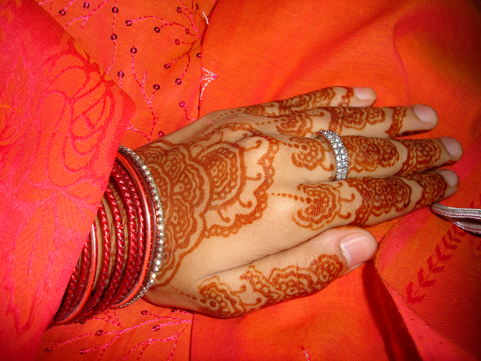 Typical hand with Henna decorations prior to an Islamic wedding